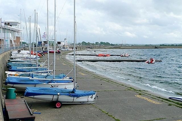 The Queen Mother Reservoir There is a sailing club based at the reservoir. The club house is at the top of the bank at reservoir level. It was too choppy to go out today.